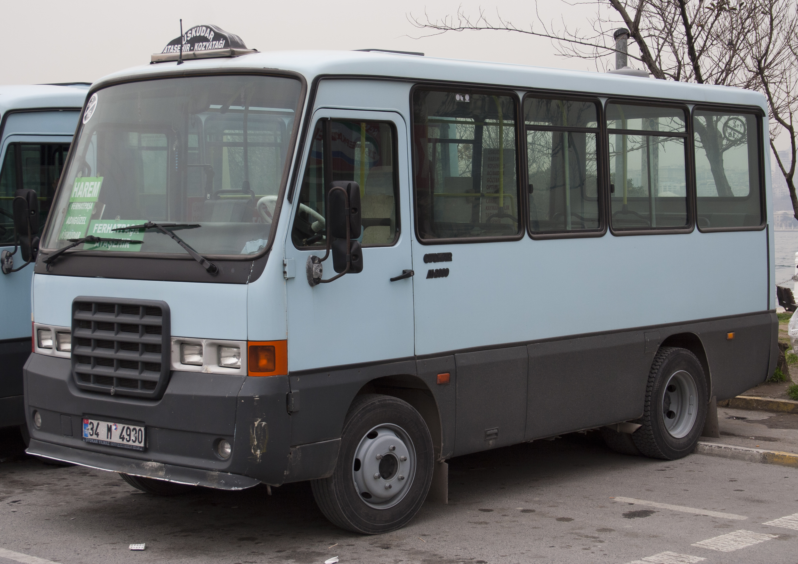 Otokar M-2000 short bus used as a Dolmuş in Üsküdar, Istanbul.